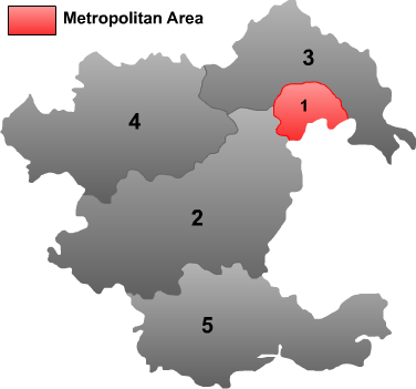 Map of Jieyang in Guangdong province.